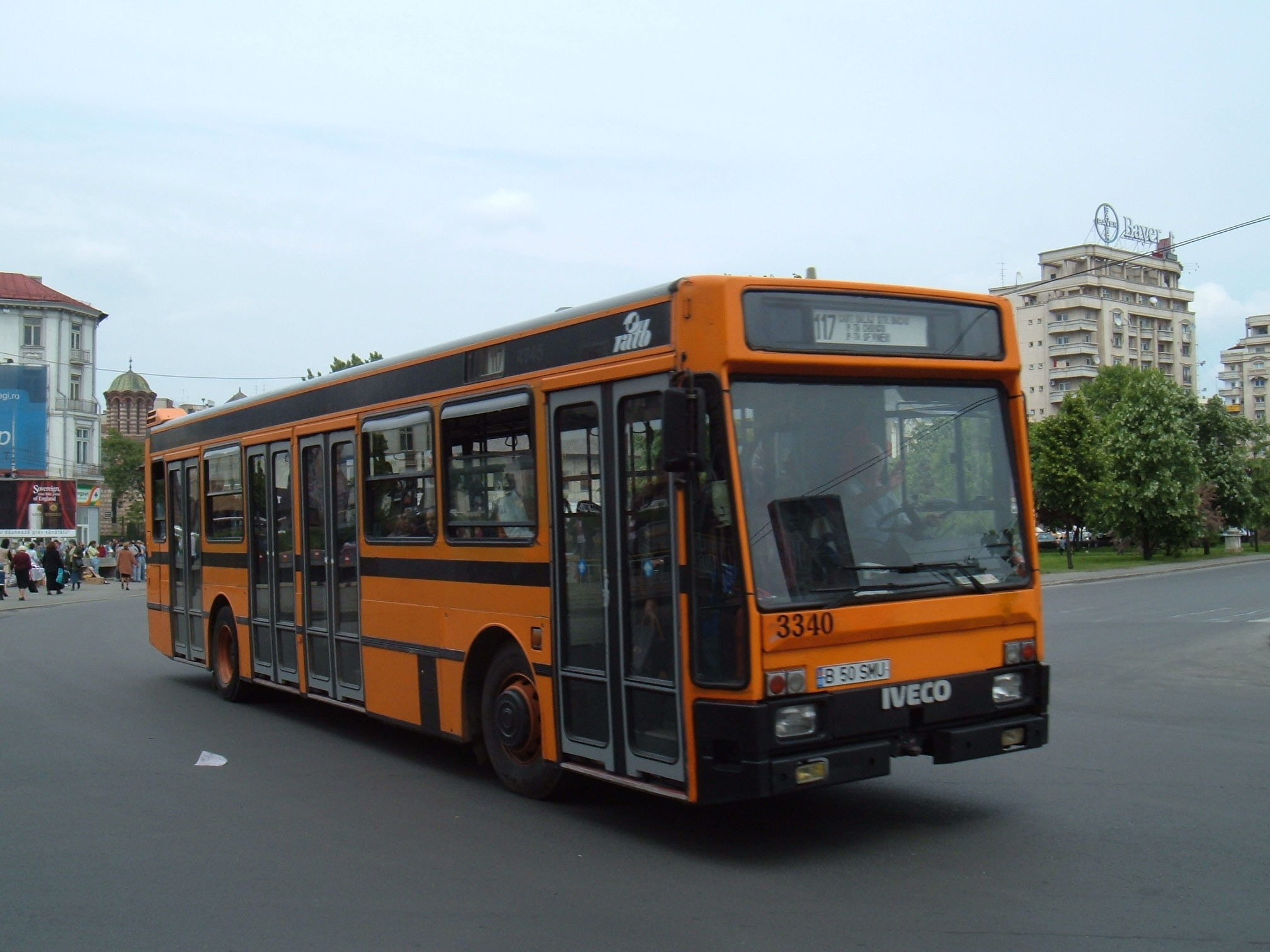 Public bus in Bucharest, Romania (IVECO TurboCity 480.12.21 type). Year built 1990. RATB București company.